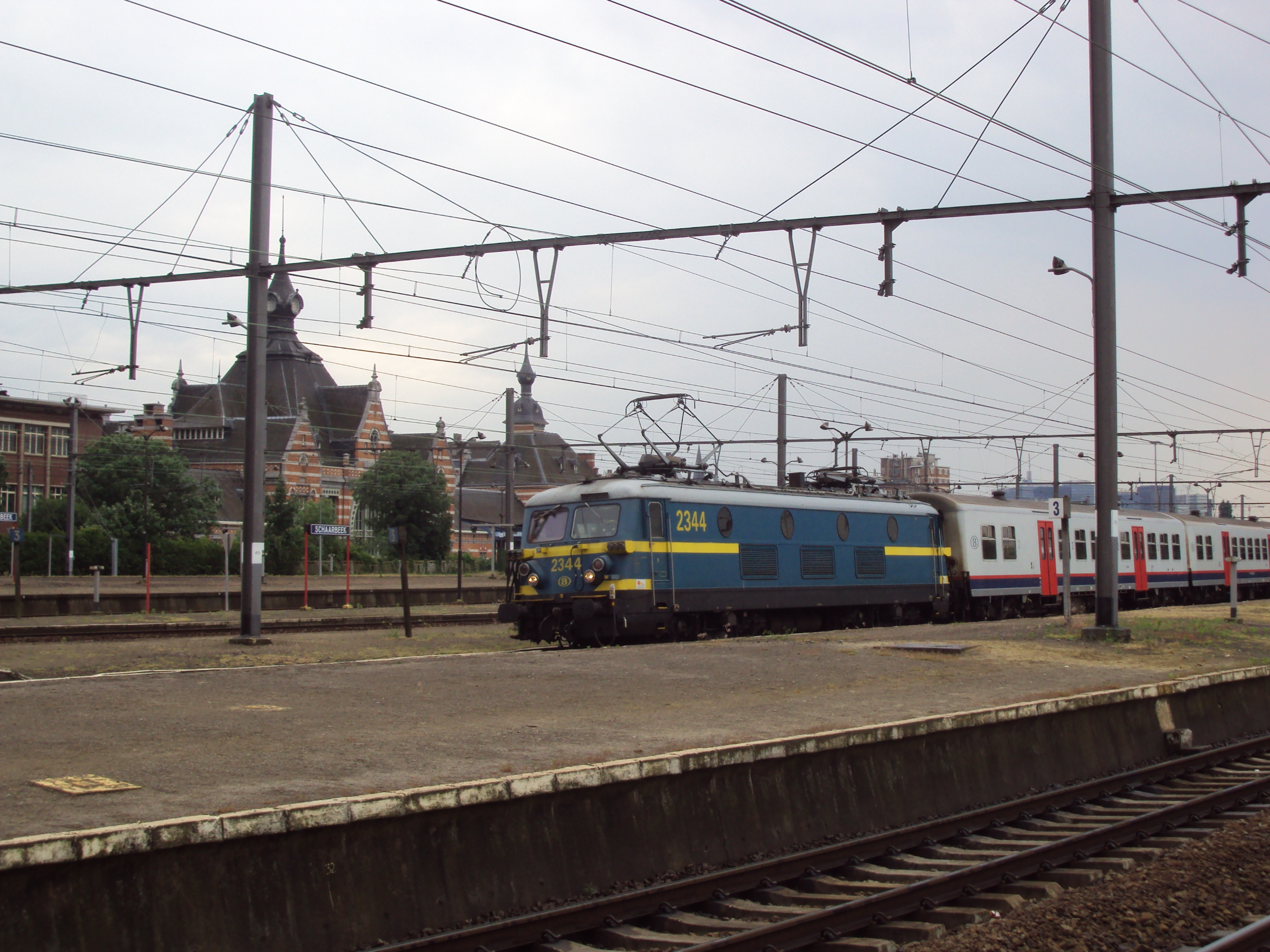 HLE 2344 in Schaerbeek